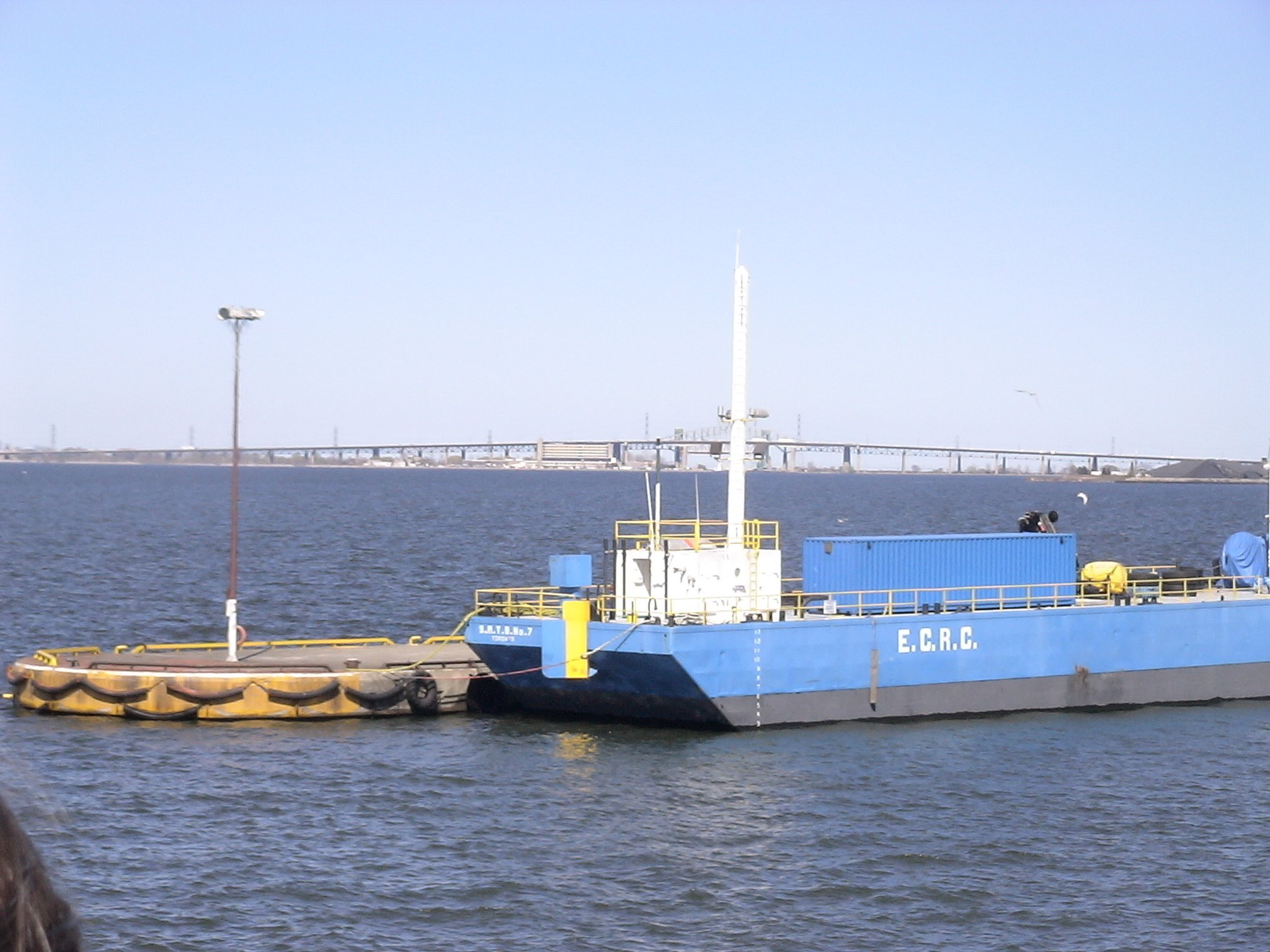 The waters of Burlington Bay, also known as Hamilton Harbour, looking east toward the span of the Burlington Bay James N. Allan Skyway. Photographed from the port deck of HMCS Halifax in Hamilton, Ontario.